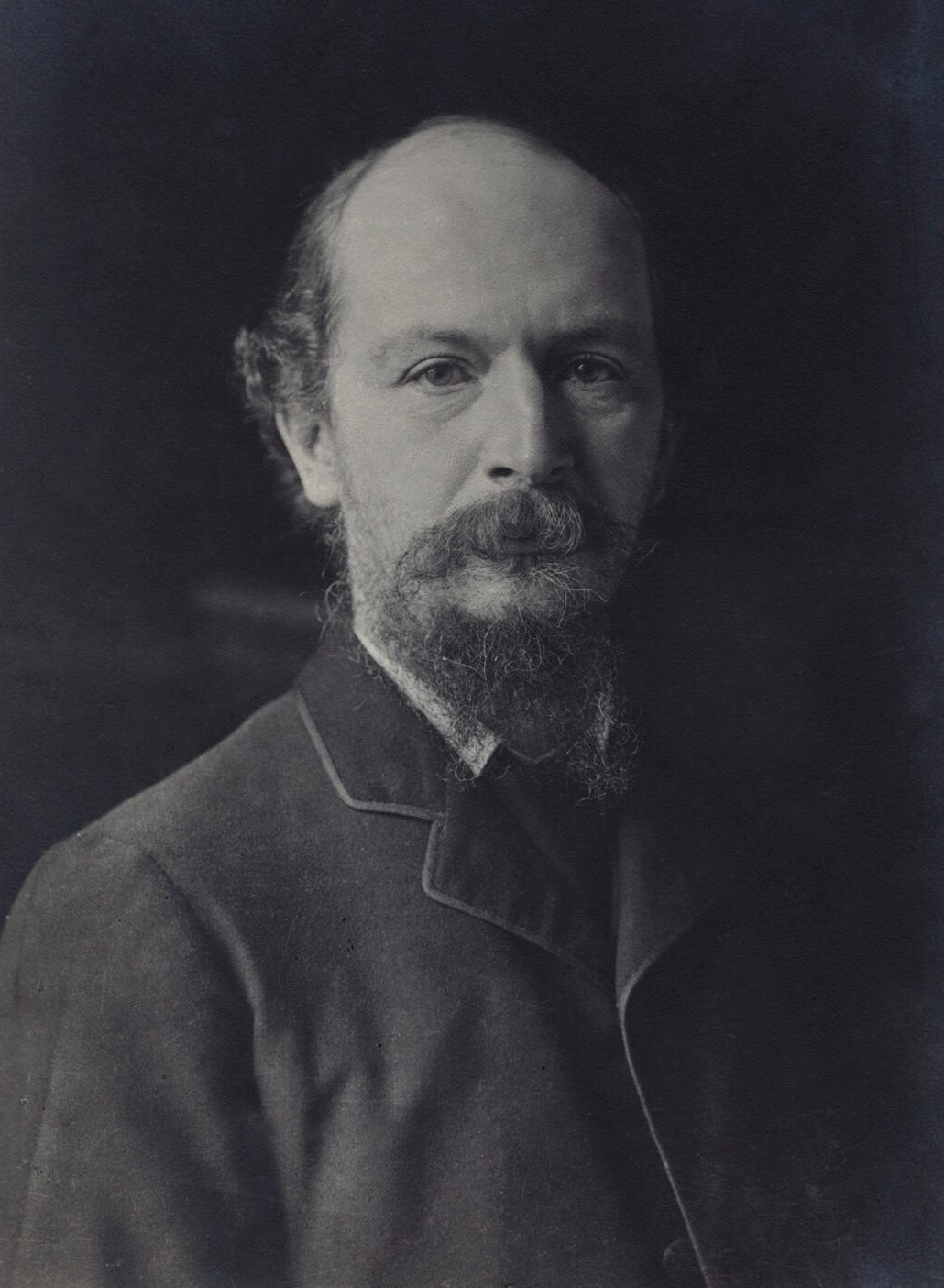 Picture of Algernon Charles Swinburne, 1890's